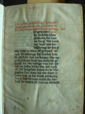 Zürich : 'Richtebrief' (1304)